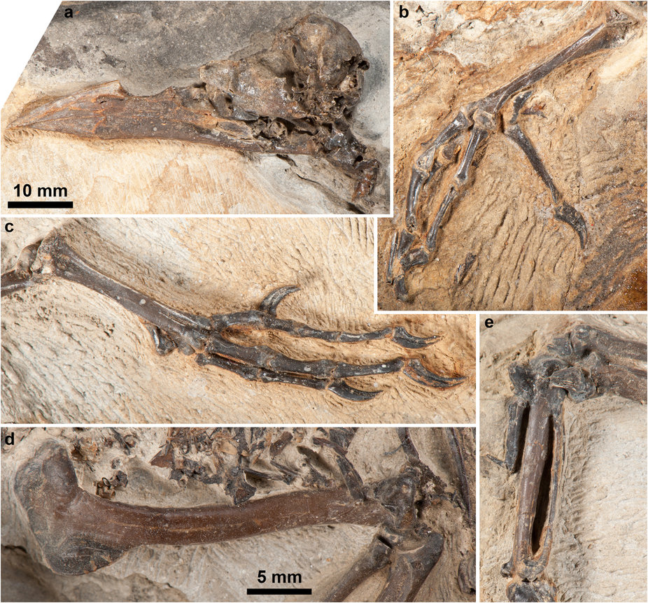 Photographs of the holotype of Septencoracias morsensis gen. et sp. nov. (MGUH.VP 9509). (a) Skull in left lateral view. (b) Right foot in medial view. (c) Left foot in dorsal view. (d) Right humerus in cranial view. (e) Right carpometacarpus in ventral view.